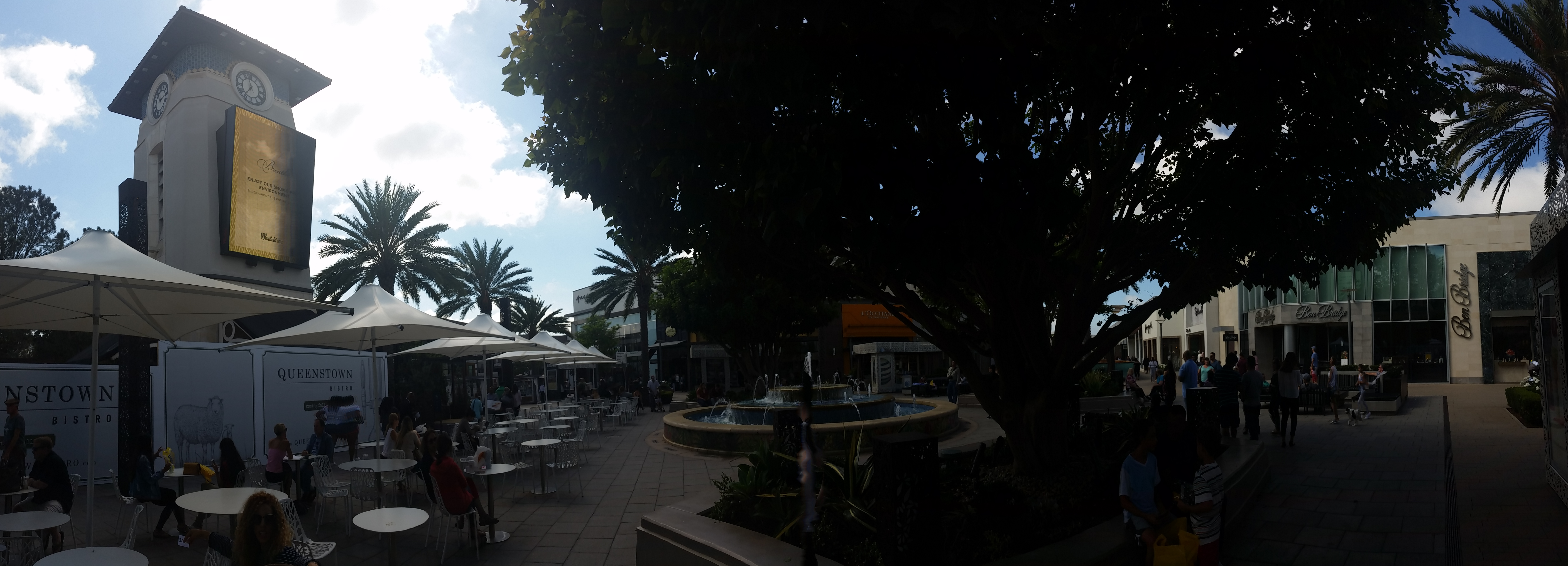 Panoramic shot of the center plaza of Westfield UTC